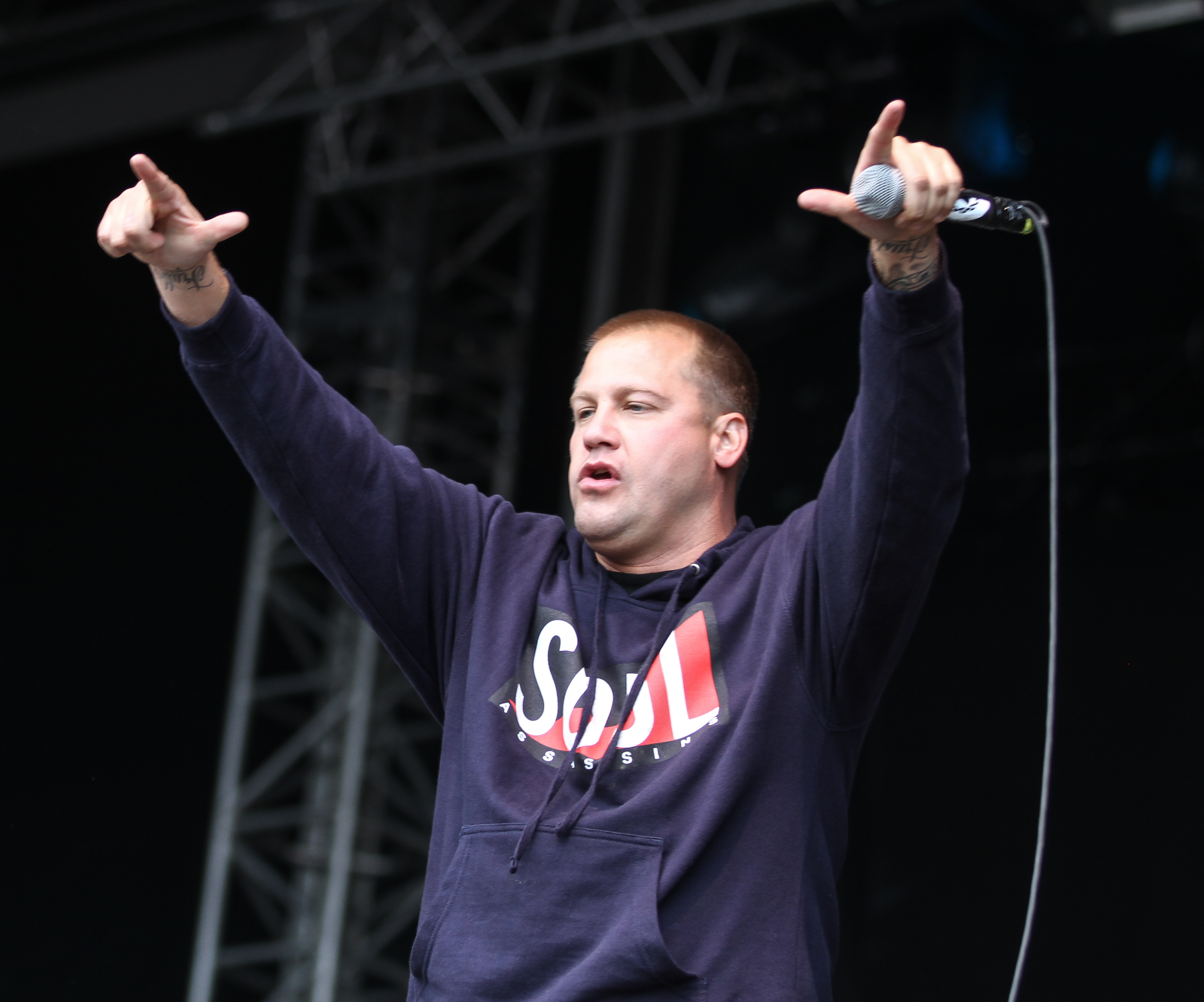 Terror (Band) performing at With Full Force Festival 2013